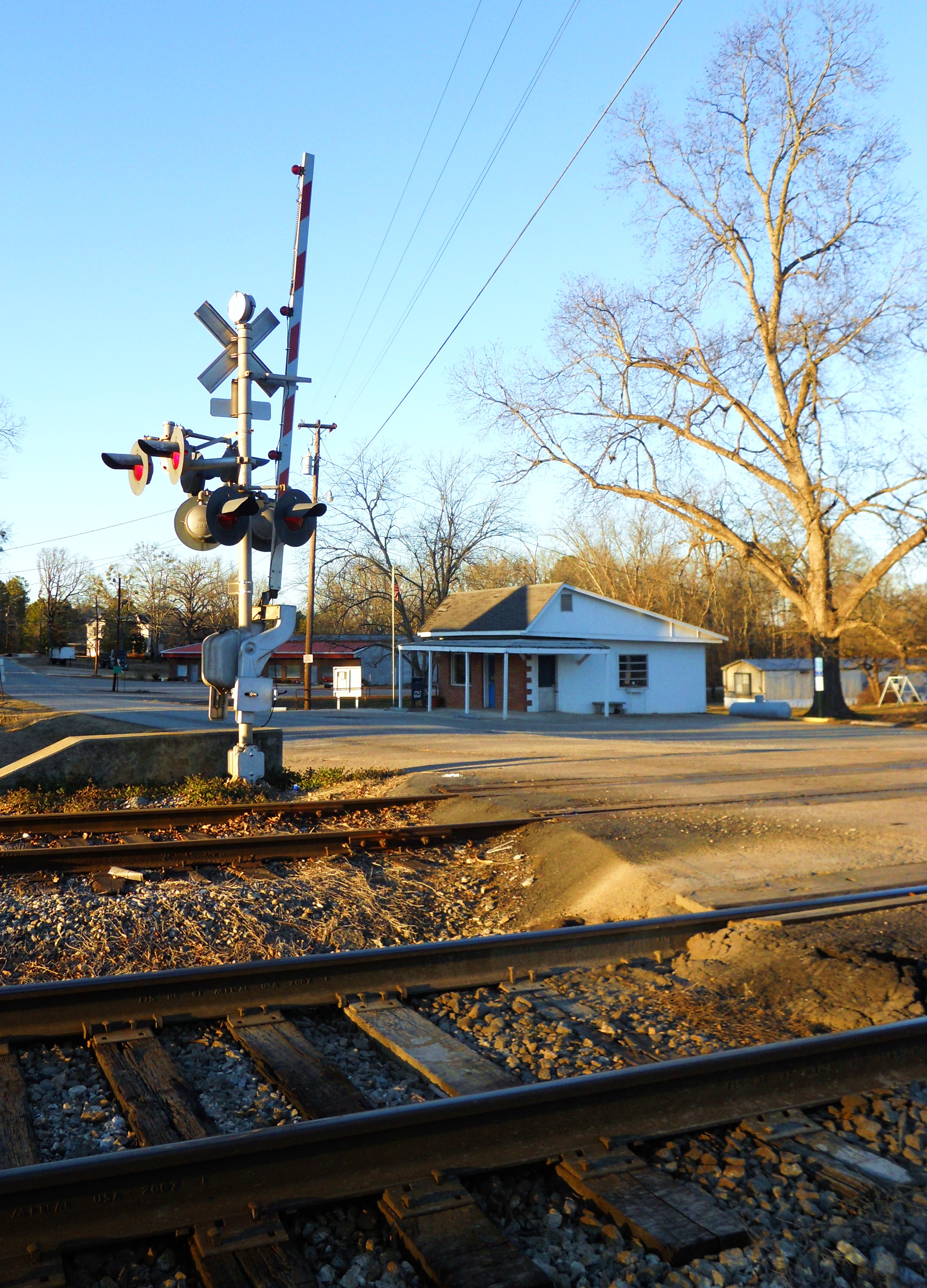 This is a photo of Cusseta, Alabama